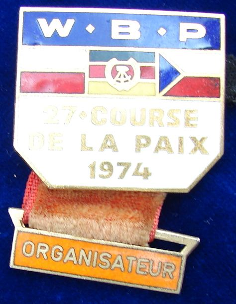 Original organiser pin badge W·B·P (Warsaw Berlin Prague) "27 · COURSE DE LA PAIX 1974". 35 x 30 mm Condition: EXTREMELY FINE